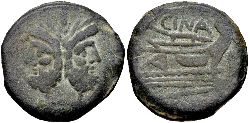 Roman Republic Lucius Cornelius Cinna (consul 127 BC). 169-158 BC. Æ As (31mm, 24.55 g, 1h). Rome mint. Laureate head of Ianus; I (mark of value) above Prow of galley right; CINA above, I (mark of value) to right.